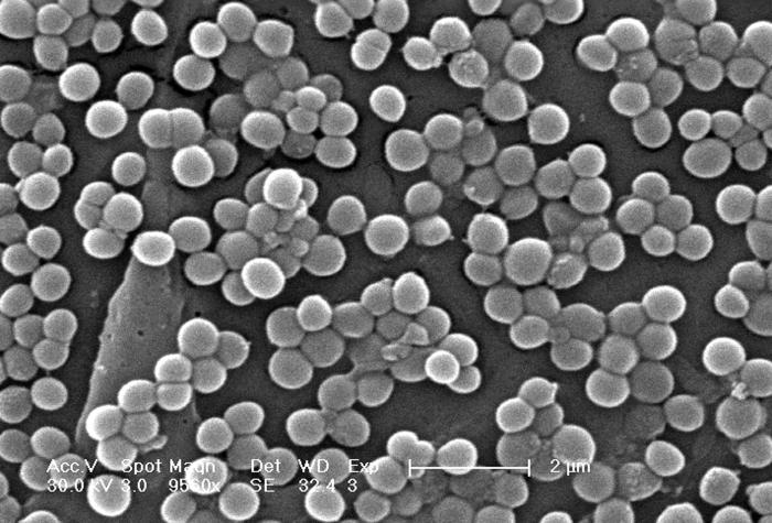 ID#: 7821 Description: This 2005 scanning electron micrograph (SEM) depicted numerous clumps of methicillin-resistant Staphylococcus aureus bacteria, commonly referred to by the acronym, MRSA; Magnified 9560x. Recently recognized outbreaks, or clusters of MRSA in community settings have been associated with strains that have some unique microbiologic and genetic properties, compared with the traditional hospital-based MRSA strains, which suggests some biologic properties, e.g., virulence factors like toxins, may allow the community strains to spread more easily, or cause more skin disease. A common strain named USA300-0114 has caused many such outbreaks in the United States. Methicillin-resistant Staphylococcus aureus infections, e.g., bloodstream, pneumonia, bone infections, occur most frequently among persons in hospitals and healthcare facilities, including nursing homes, and dialysis centers. Those who acquire a MRSA infection usually have a weakened immune system, however, the manifestation of MRSA infections that are acquired by otherwise healthy individuals, who have not been recently hospitalized, or had a medical procedure such as dialysis, or surgery, first began to emerged in the mid- to late-1990's. These infections in the community are usually manifested as minor skin infections such as pimples and boils. Transmission of MRSA has been reported most frequently in certain populations, e.g., children, sports participants, or jail inmates. High Resolution: Content Providers(s): CDC/ Janice Carr/ Jeff Hageman, M.H.S. Provider Email: Creation Date: 2005 Photo Credit: Janice Carr Copyright Restrictions: None - This image is in the public domain and thus free of any copyright restrictions. As a matter of courtesy we request that the content provider be credited and notified in any public or private usage of this image.